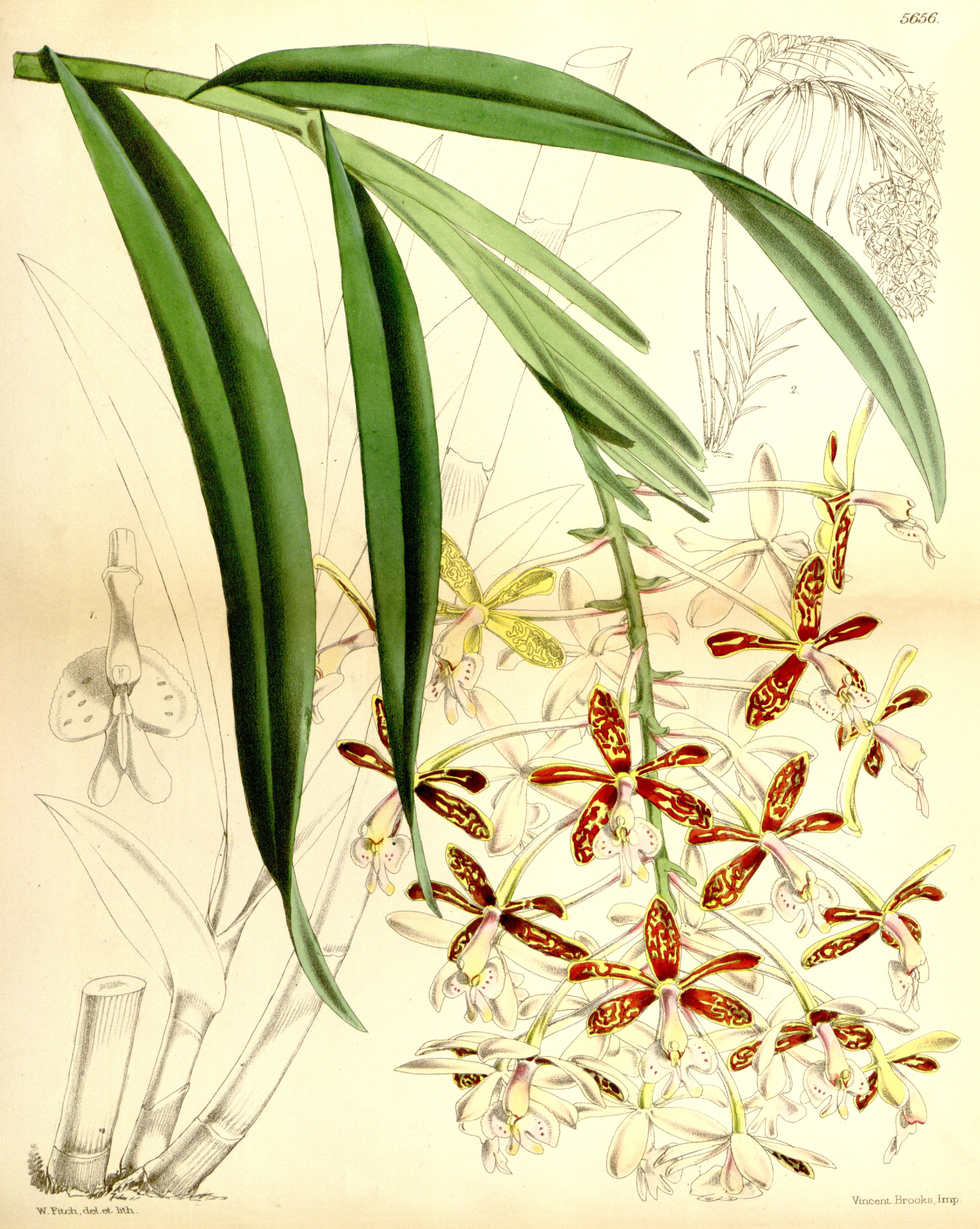 Illustration of Epidendrum cnemidophorum